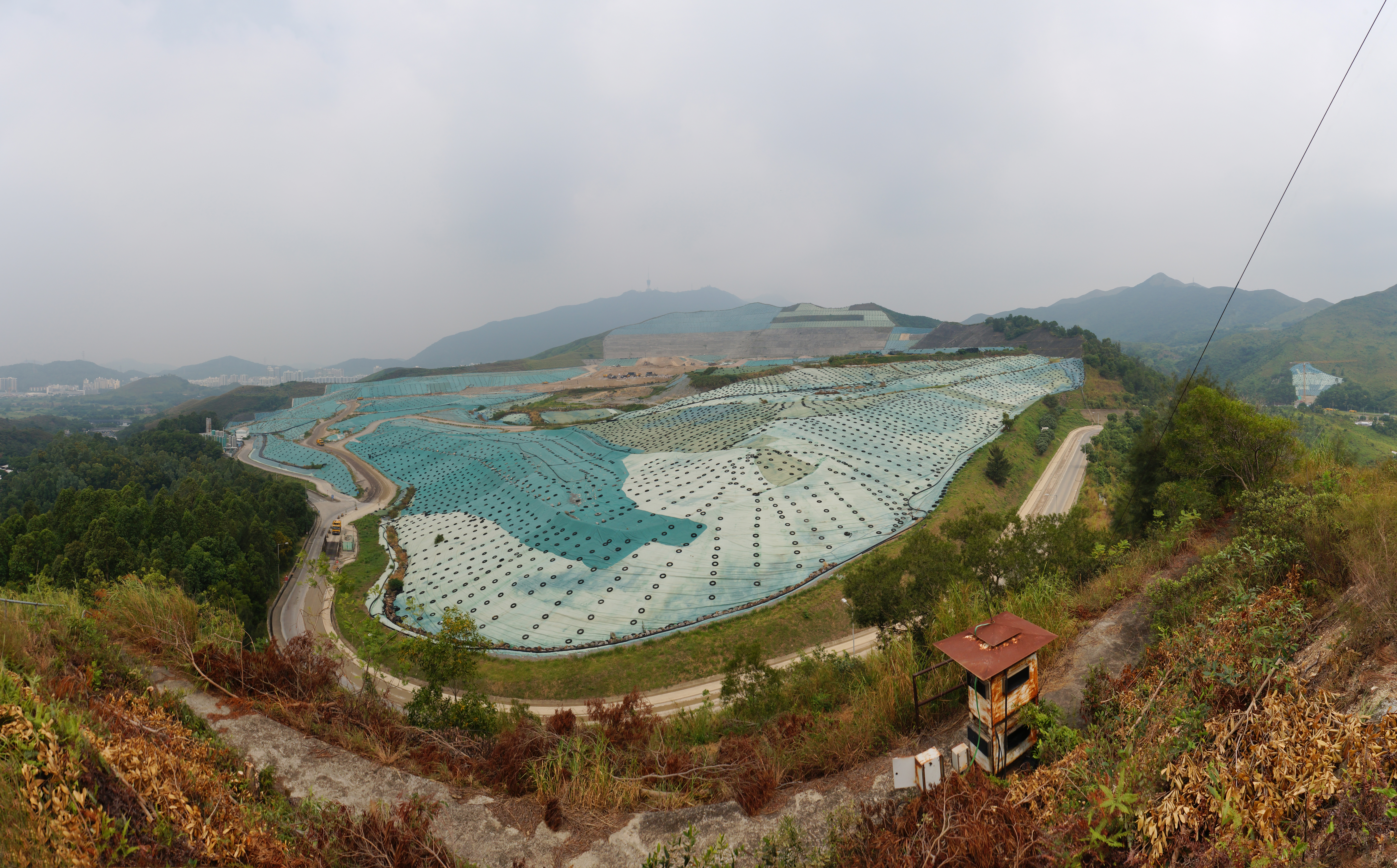 North East New Territories Landfill